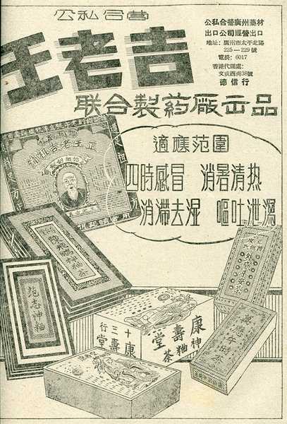 Wong Lo Kat in Canton newspaper advertising.